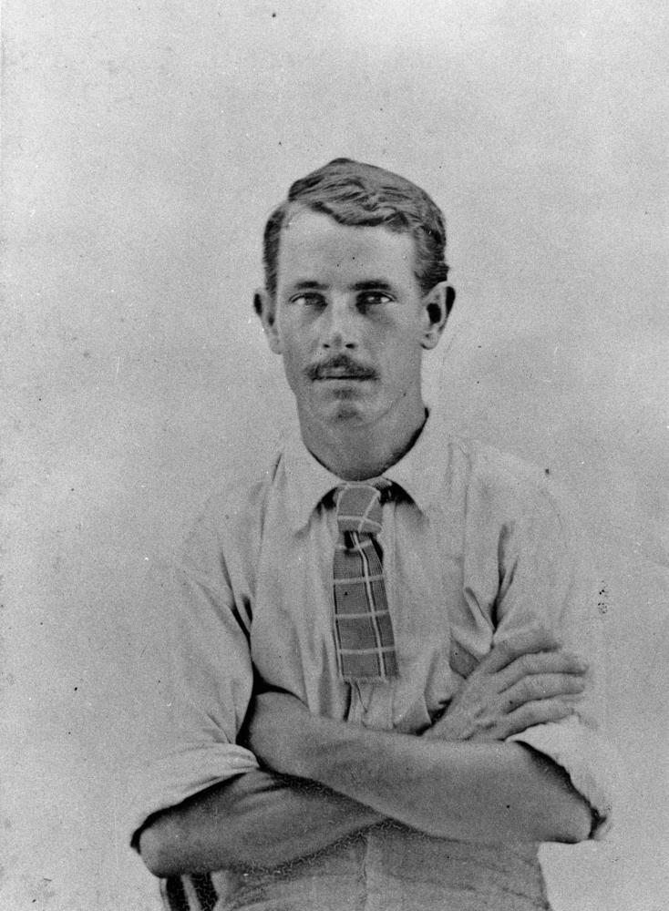 F. Gordon, employee on Canobie Station, 1895. Canobie Station is situated north of Julia Creek.